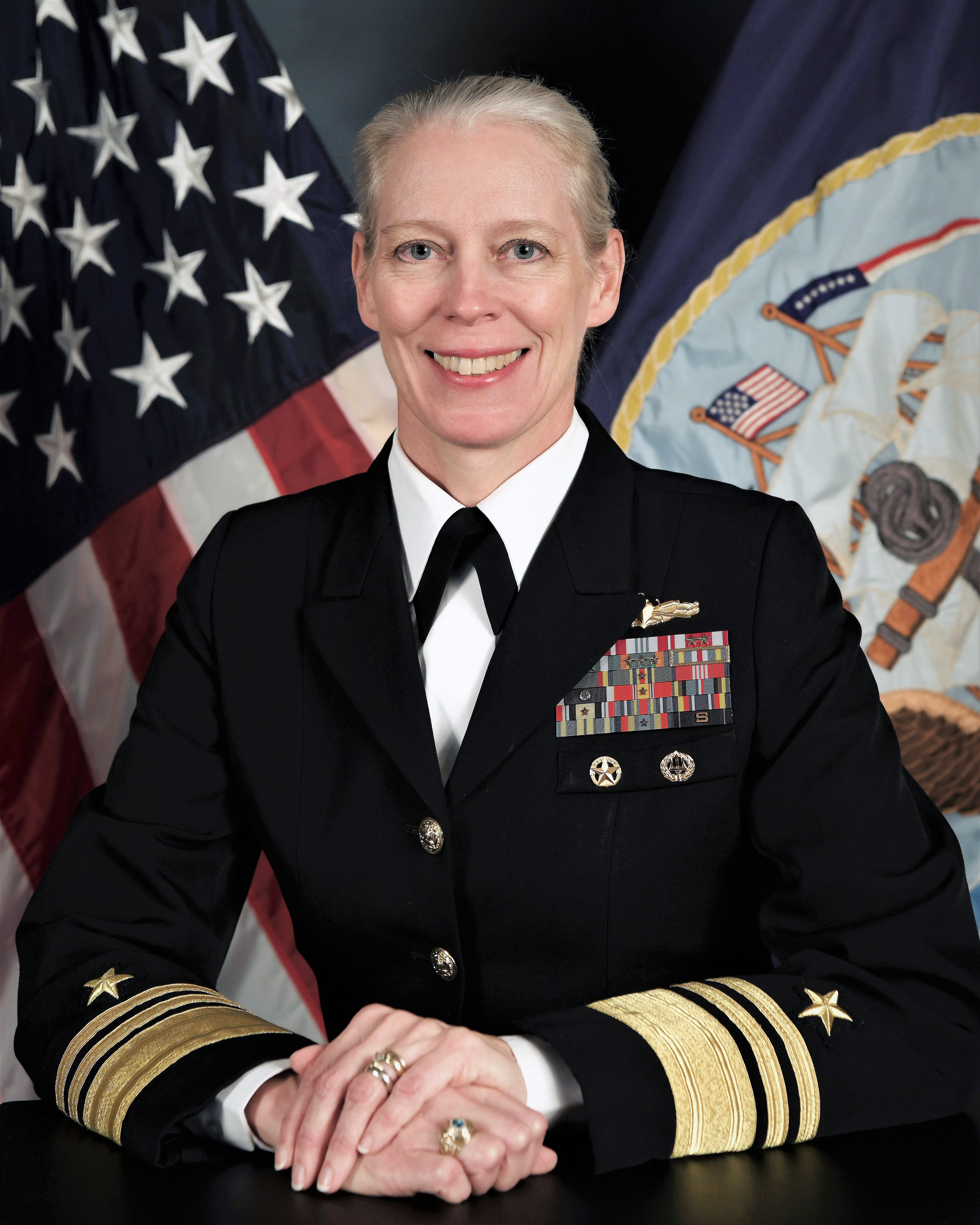 Official bio photo of Vice Adm. Mary M. Jackson. (U.S. Navy photo)